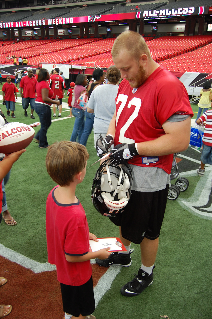 Sam Baker, offensie tackle for the Atlanta Falcons, signs an autograph for a young fan at the 2008 "Roam the Dome" event.